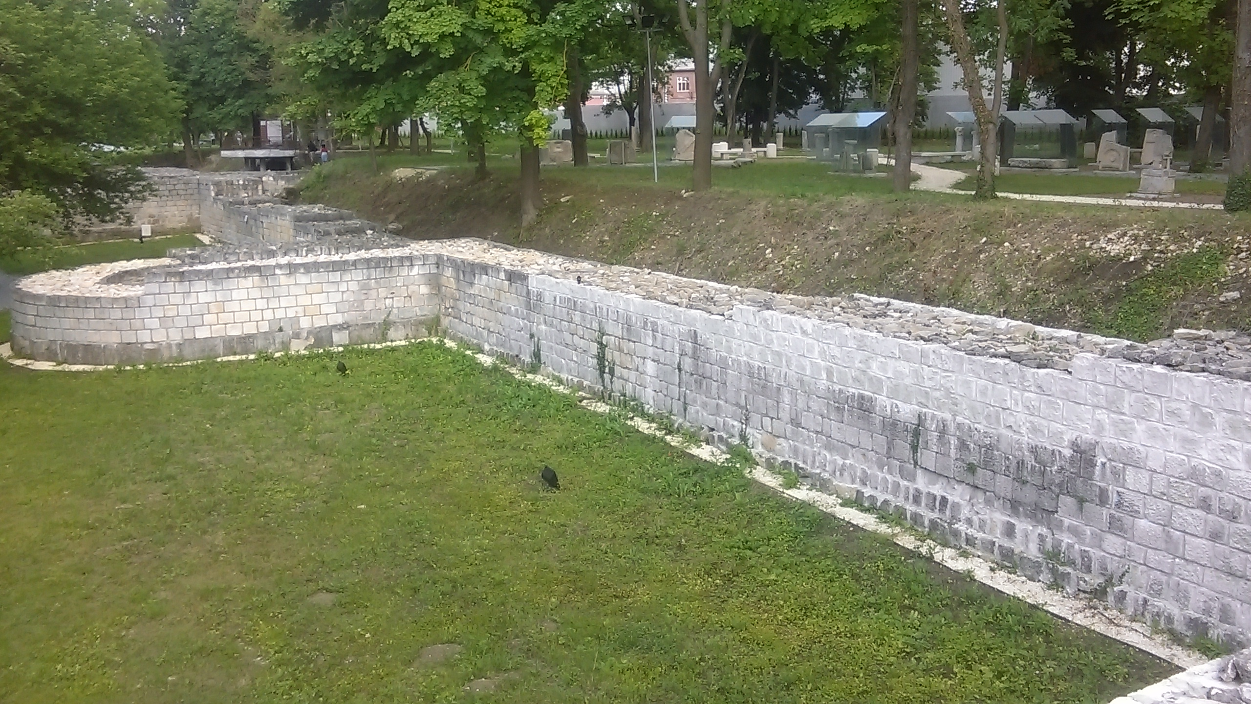 Northern gate, Abritus historical reserve, Razgrad